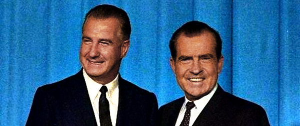 reprocessed public domain image for an ASHC post.